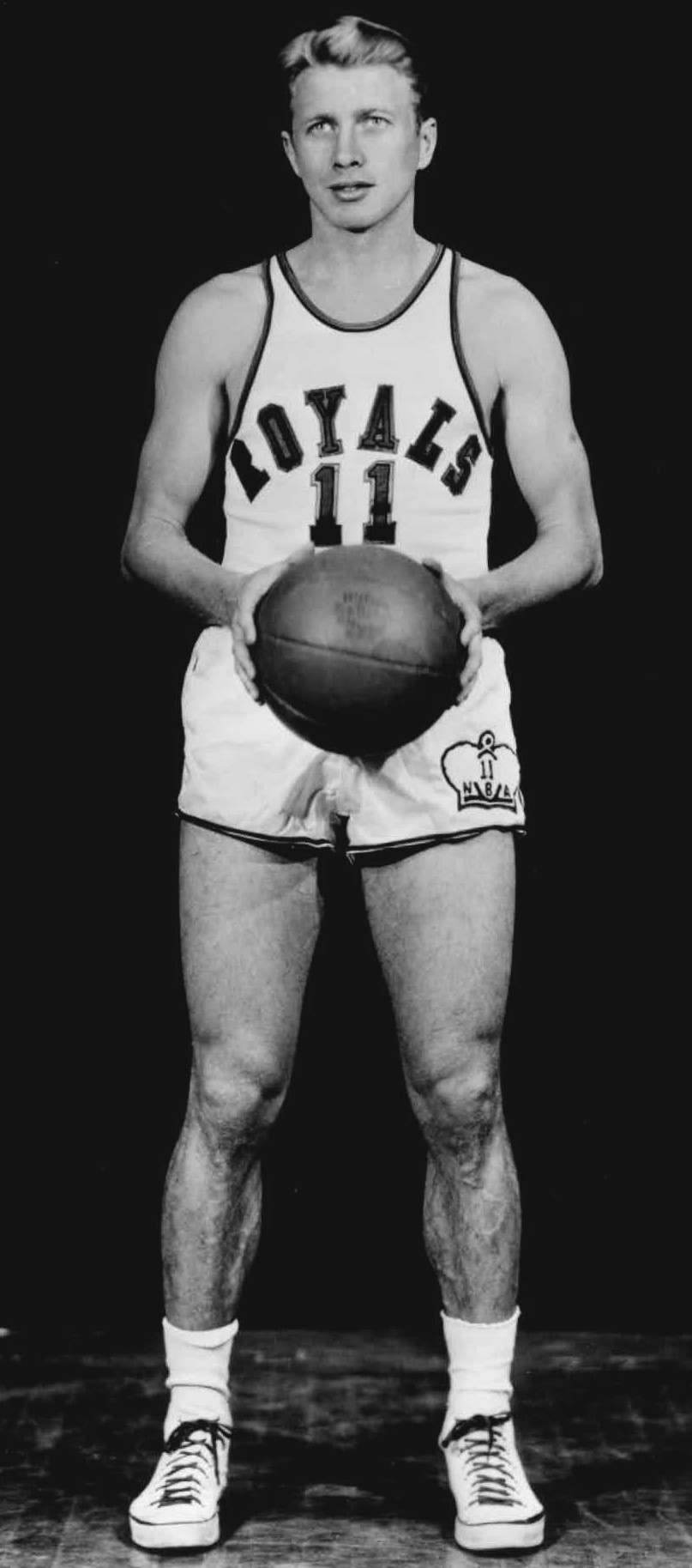 Professional basketball player Bob Davies